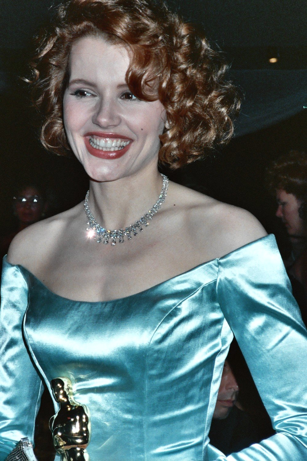 Geena Davis at the Governor's Ball after the telecast of the 61st Annual Academy Awards, 1989. NOTE: Permission granted to copy, publish, broadcast or post any of my photos, but please credit "photo by Alan Light" if you can. Thanks. Scanned from the original 35MM film negative.